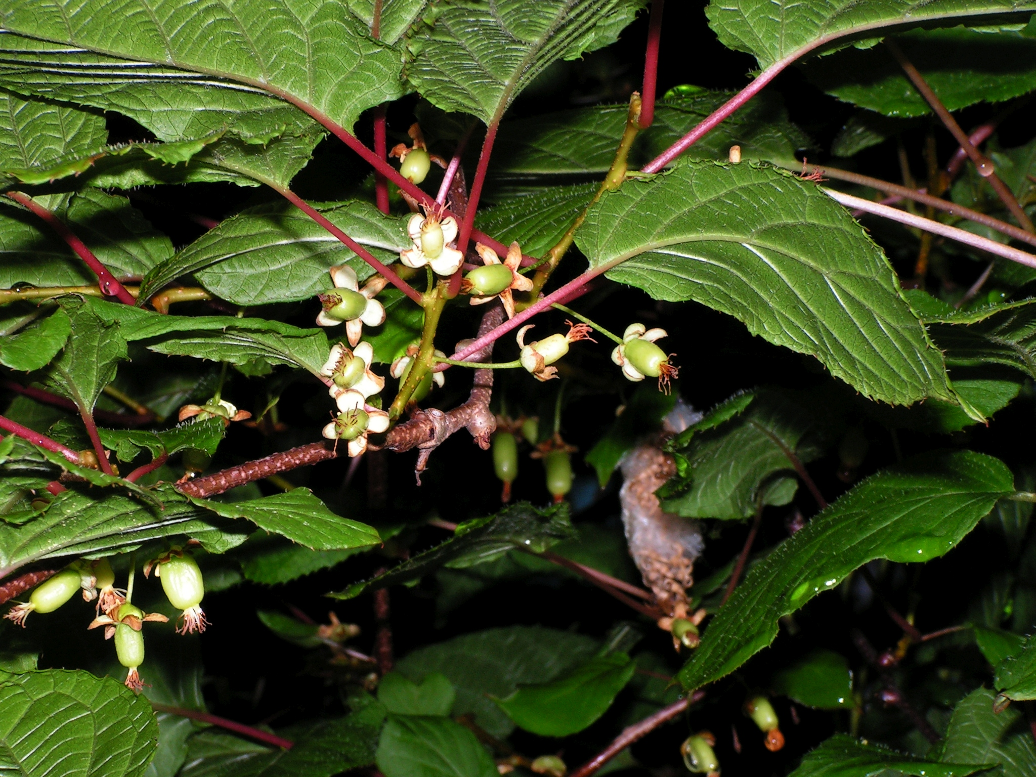 Actinidia kolomikta at the end of flowering. Moscow region, Russia.